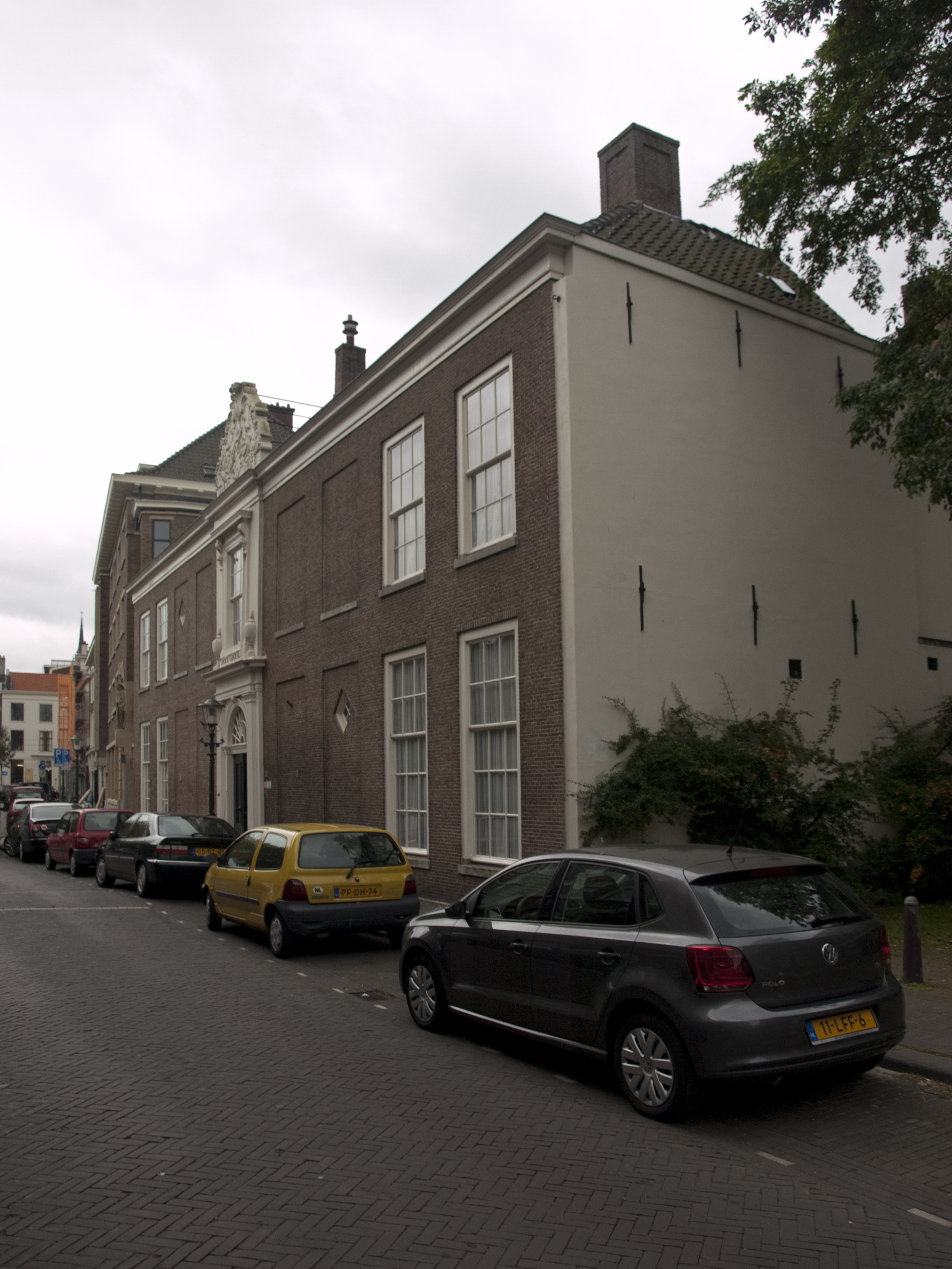 Den Haag, Assendelftstraat 53 (center)